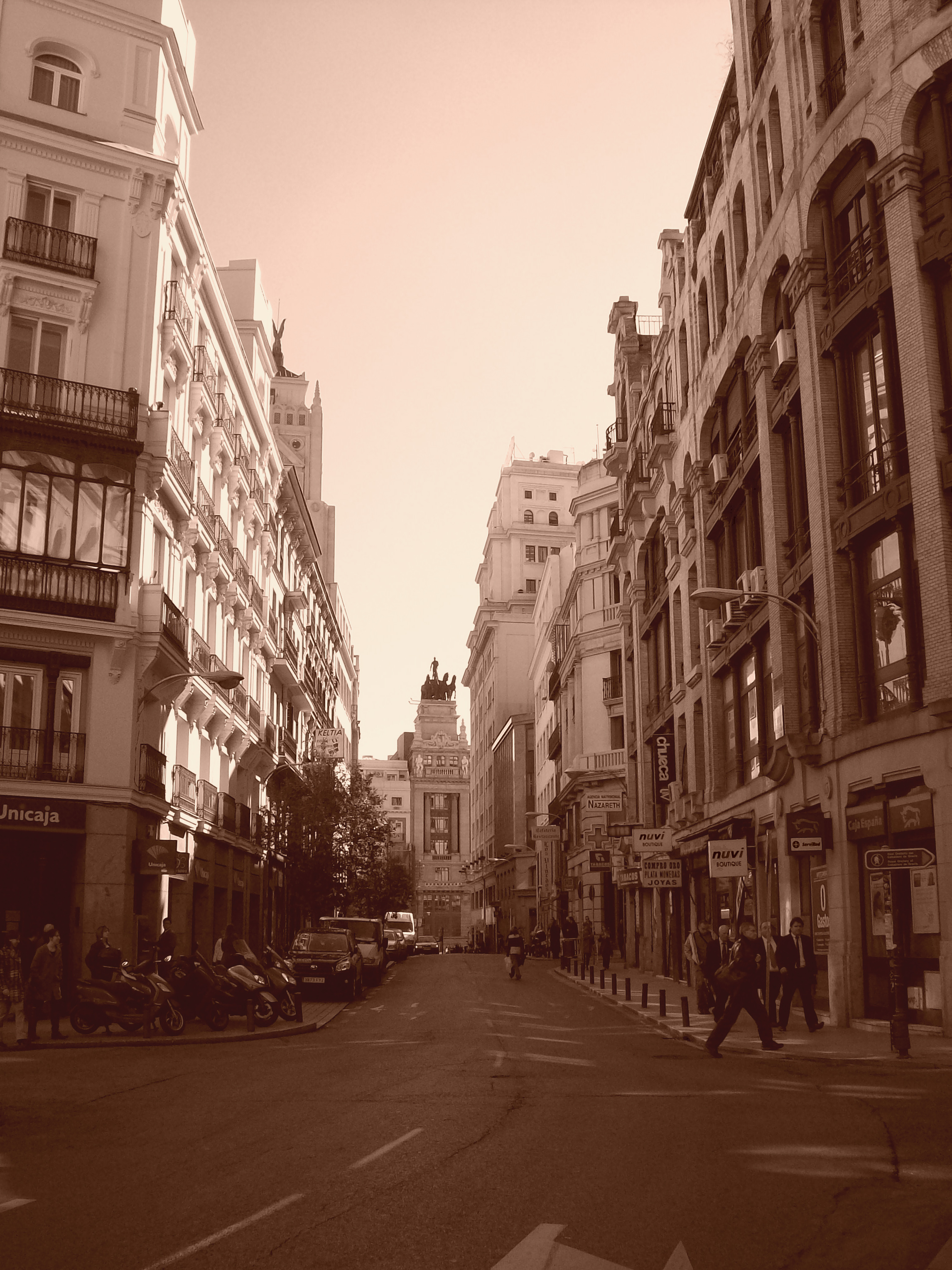 View from Calle de la Virgen de los Peligros (street, Centro district) in Madrid (Spain).